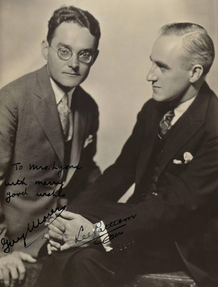 American pianists Guy Maier and Lee Pattison.